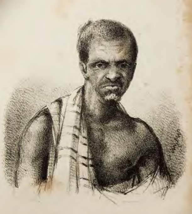 Portrait of King Badu Bonsu II of Ahanta.